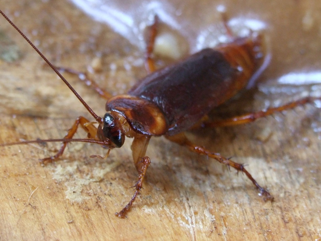 Periplaneta americana, American cockroach